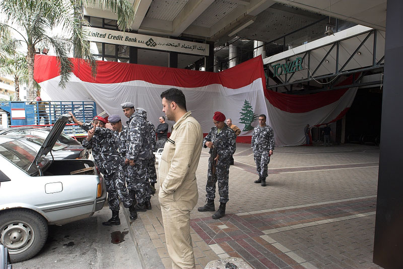 A bomb destroyed the shopping center in Jounieh. When I passed by a few days later, the damage was covered with a huge Lebanese flag.